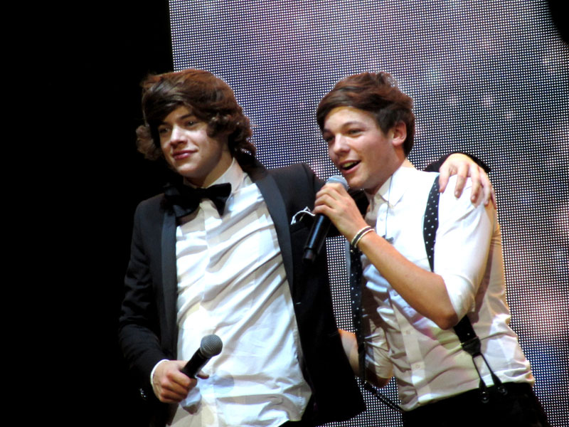 Harry and his boyfriend Louis, Clyde Auditorium, Glasgow, Saturday 14 January 2012